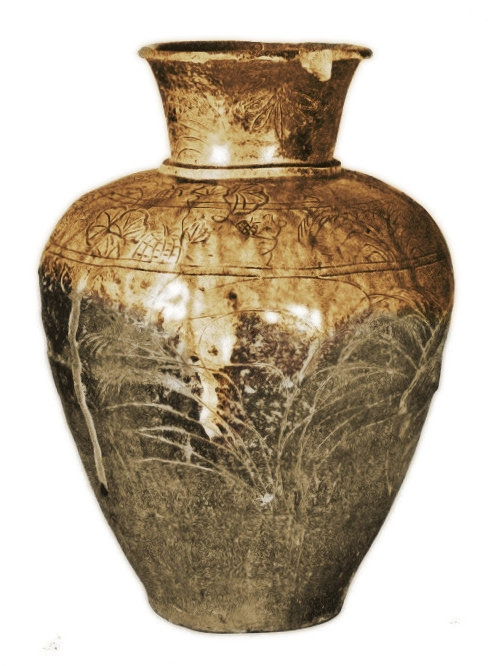 Pot with design of autumn grasses (Akikusamon bottle) unknown Discovered in the Hakusan Burial Mound; mouth bending slightly outward, bulging upper body, narrow base; covered with green glaze and drawings of autumn grasses (Japanese silver grass, melon) scratched in with a spatula; character "上" in the inside of the mouth . Heian period, second half of 12th century Funerary pot; Atsumi ware; height: 42 cm (17 in), diameter at neck: 16 cm (6.3 in), diameter at body 29 cm (11 in), diameter at base 14 cm (5.5 in) , Keio UniversityKeio University, Tokyo